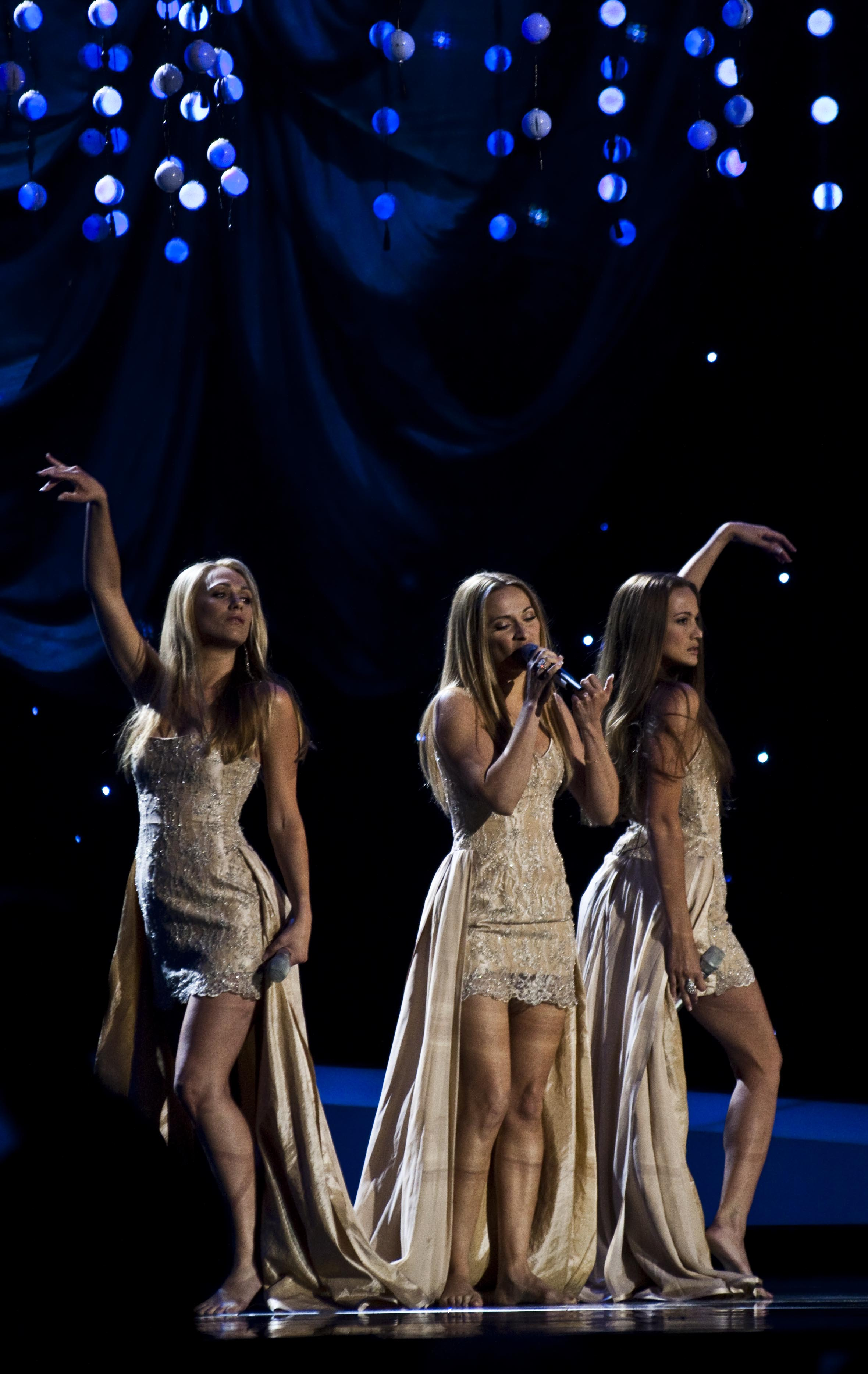 Feminnem performing "Lako je sve"